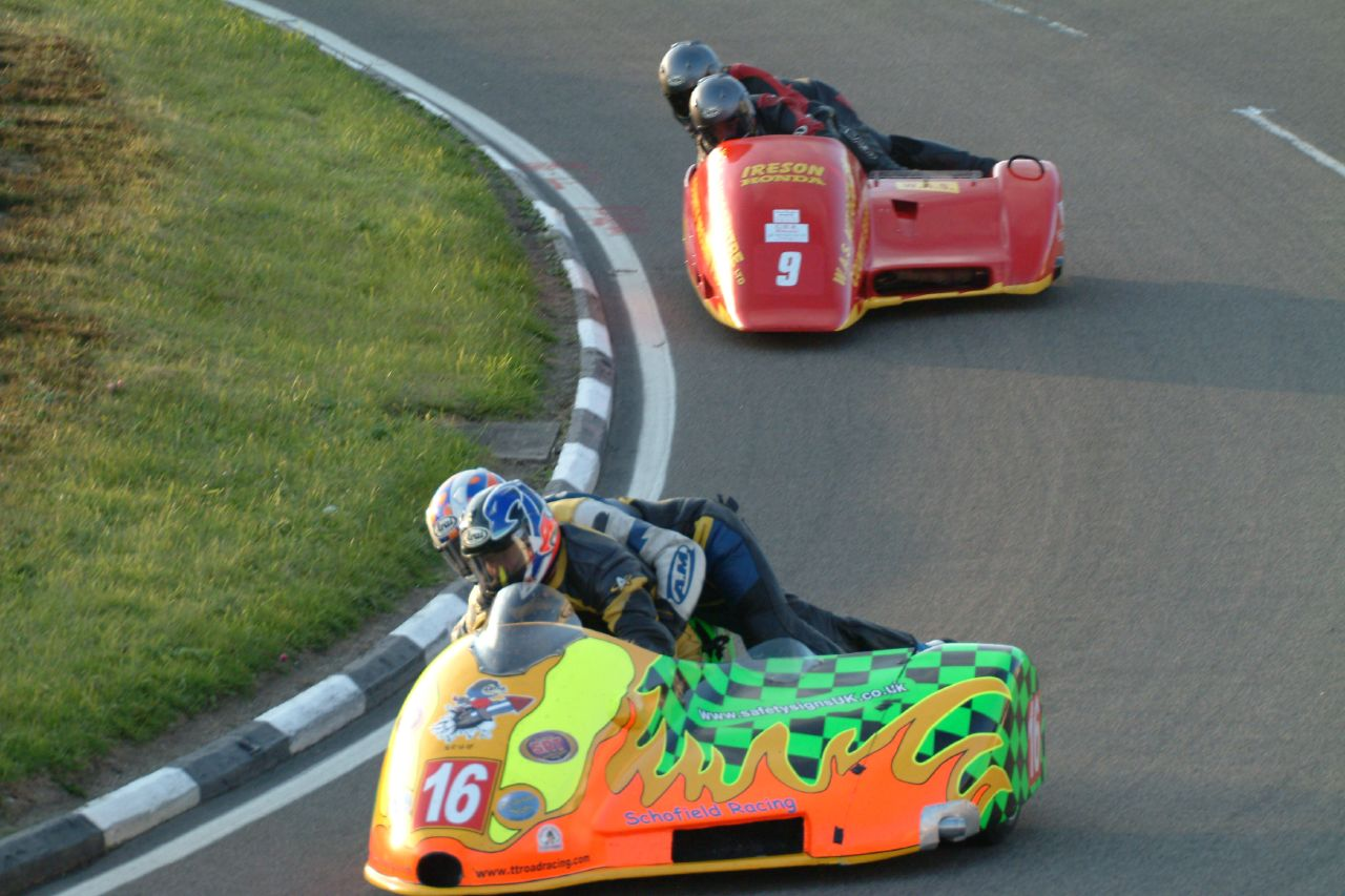 2 sidecars racing in the Isle of Man TT Races.